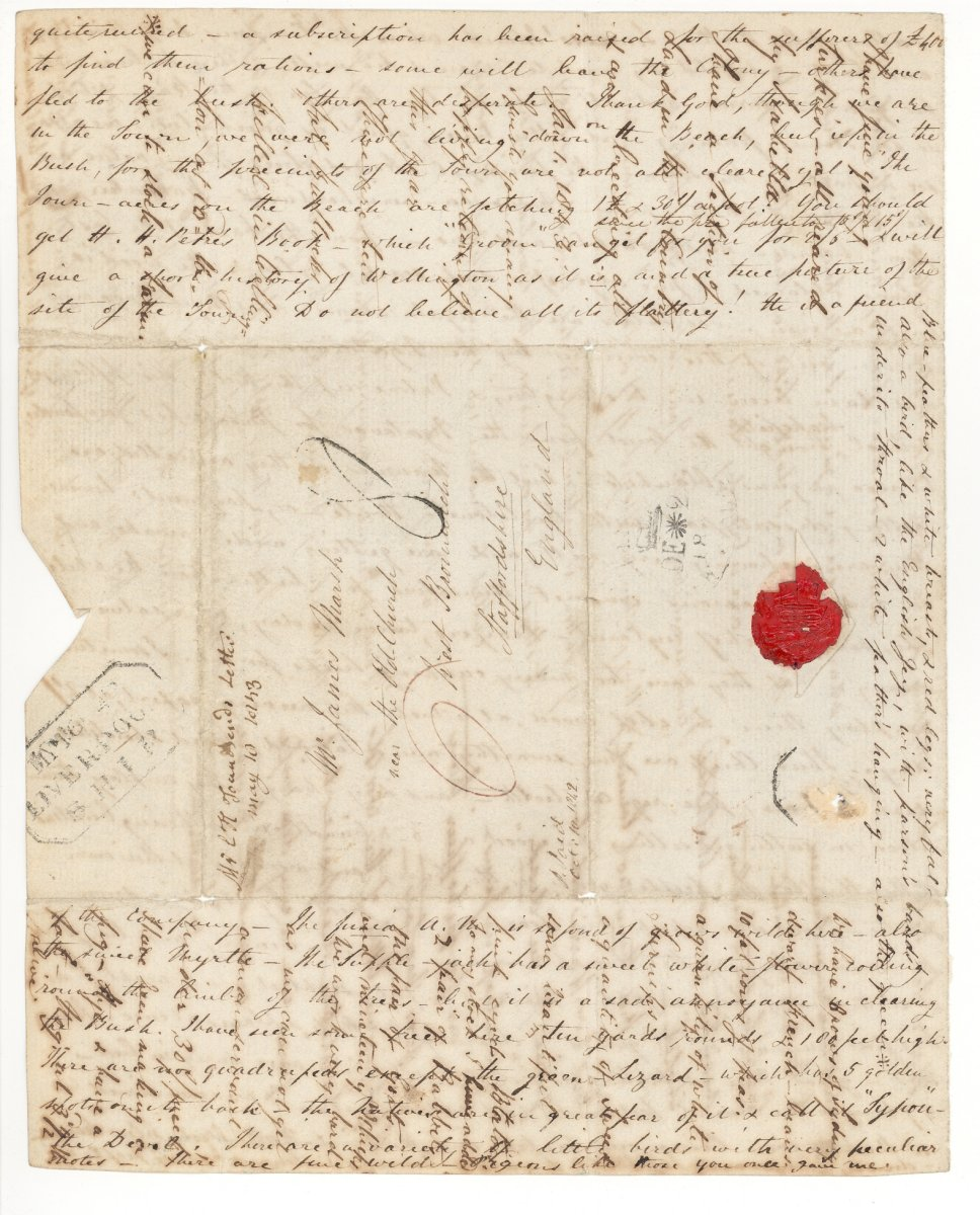 Page 4 of the earliest known holding that Wellington City Archives has